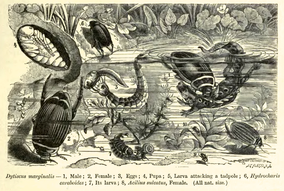 Dytiscus diving beetle life history